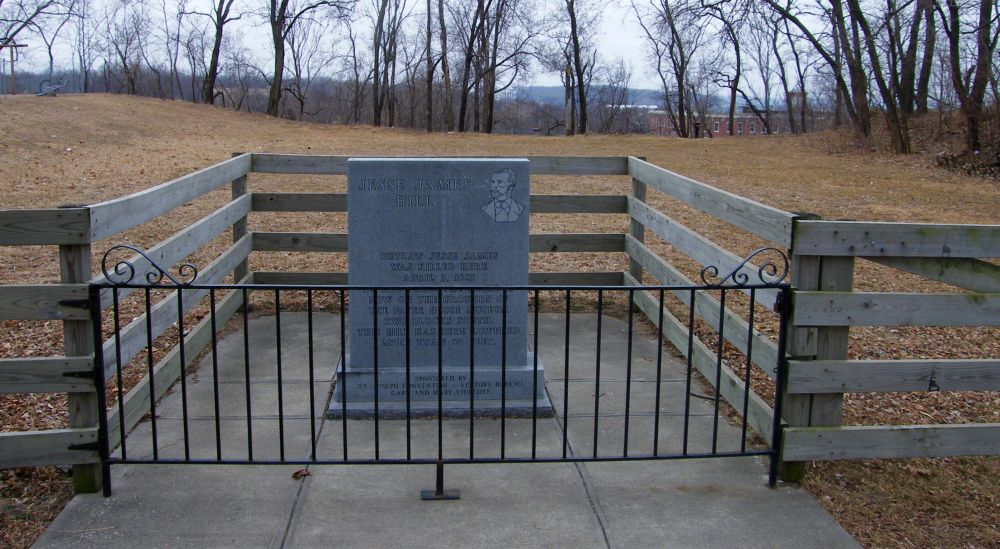 Spot where Jesse James was actually killed in St. Joseph, Missouri